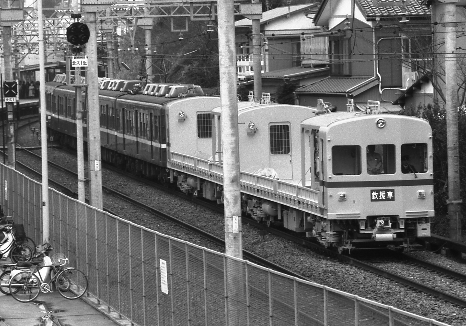 Keikyu Kuto 1 and Kuto 2 coming out from Tokyu Car Manufacturing Corporation